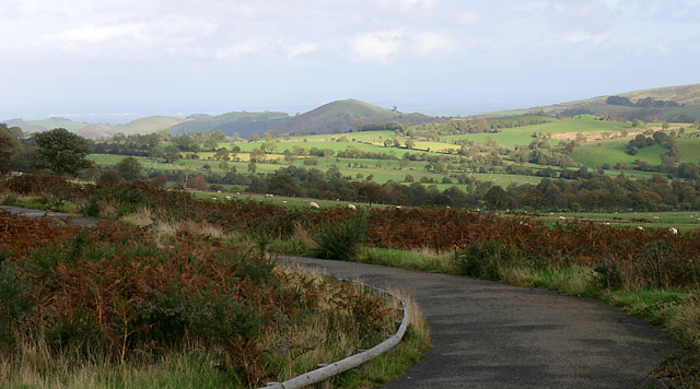 Near the Stiperstones Looking Northeast from the car park below the Stiperstones towards The Hollies and the hills beyond